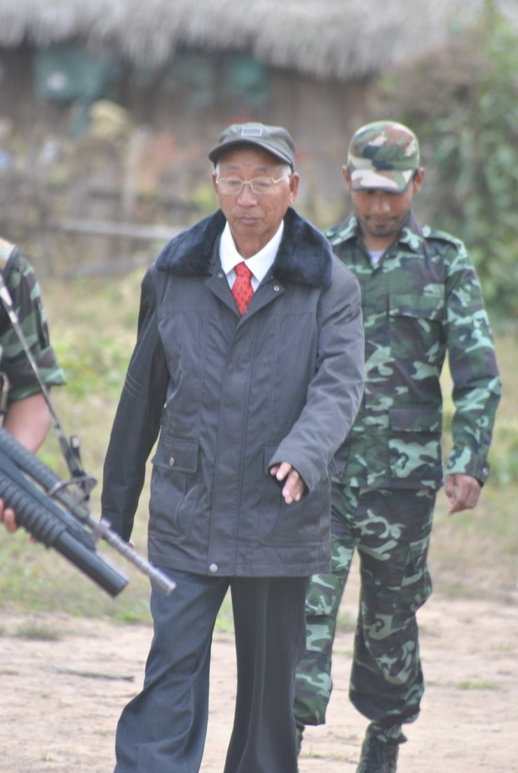 NSCN(K) chairman S.S. Khaplang, who died on June 9, 2017, seen here at a camp in Myanmar in 2011.